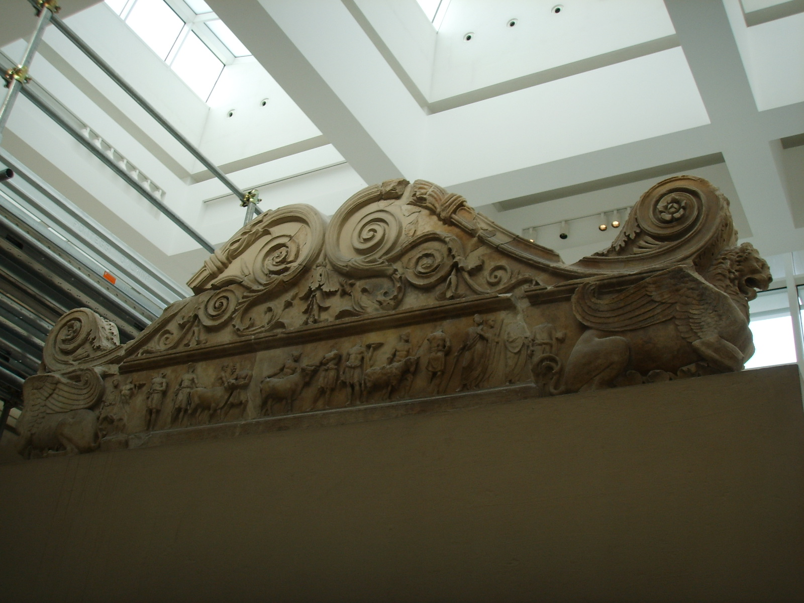 Ara Pacis, altar in Rome, Italy